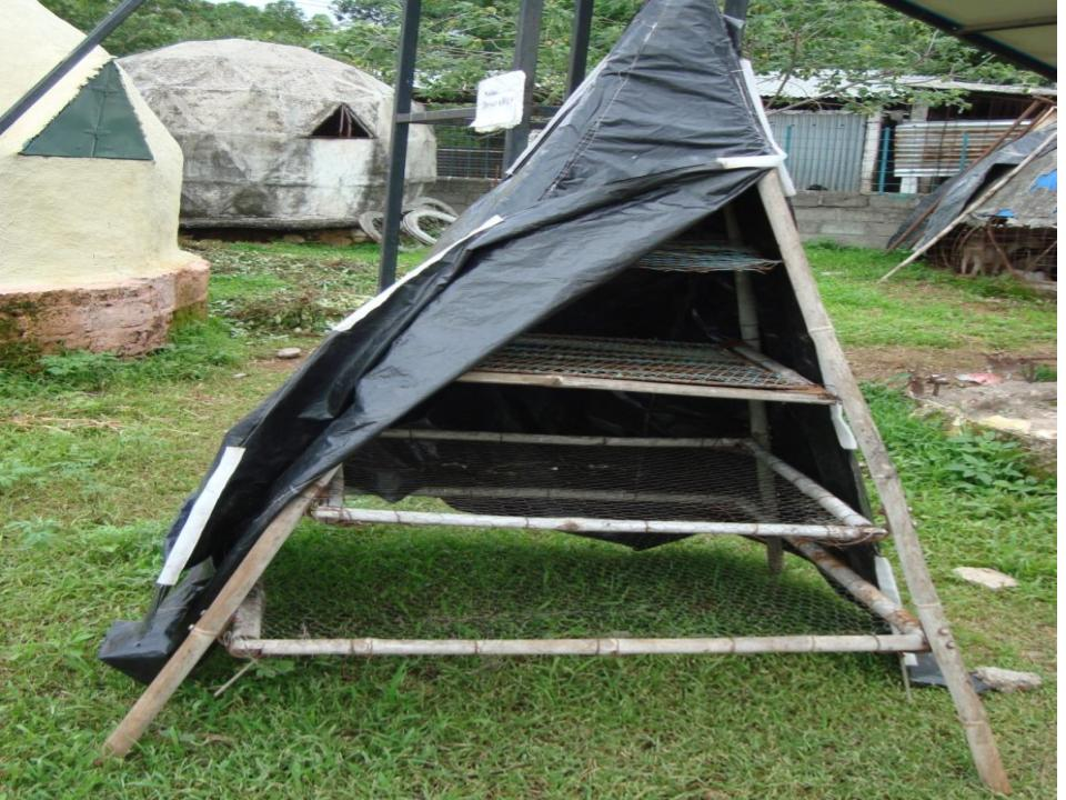 dryer